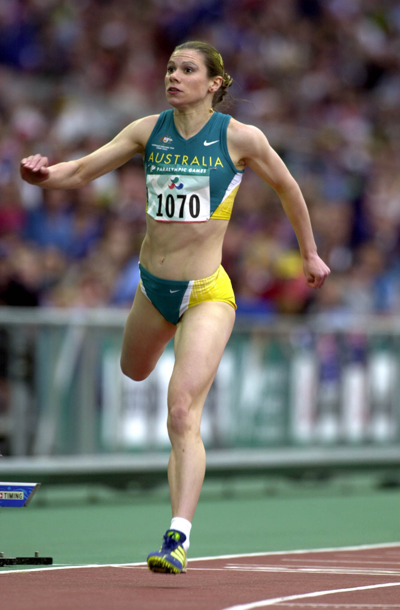 Action shot of Australian track athlete Lisa Llorens during her silver medal winning run in the 100 m T20 final at the 2000 Sydney Paralympic Games, Day 04